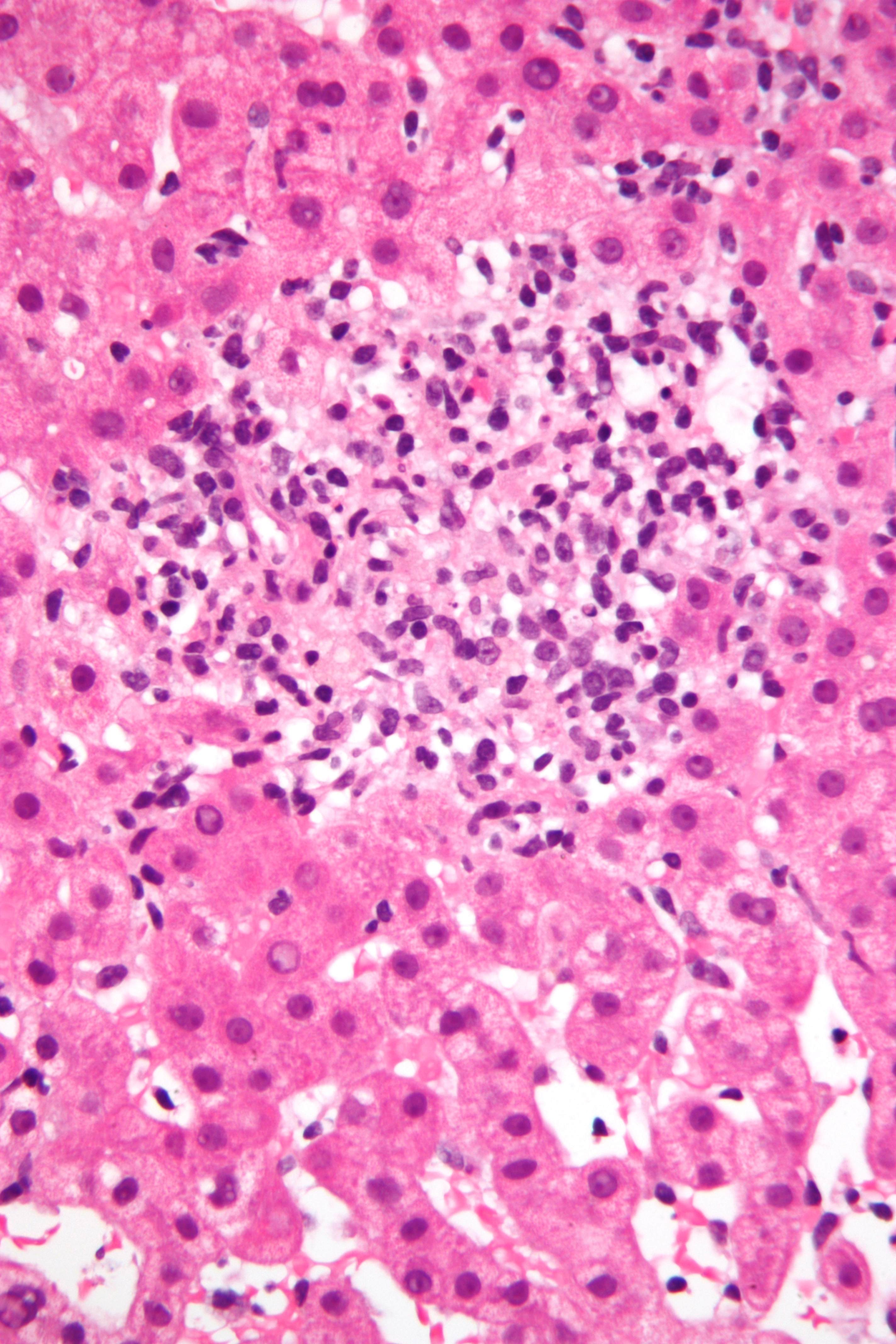 High/Intermediate/Low magnification micrograph of an adverse drug reaction leading to a hepatitis, also known as drug-induced hepatitis, with non-caseating granulomata. Liver biopsy. H&E stain. Other causes of hepatitis were excluded with an extensive work-up. Related images Low mag. Intermed. mag. High mag.